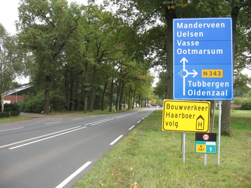 Dutch Provincial road 747 near Tubbergen